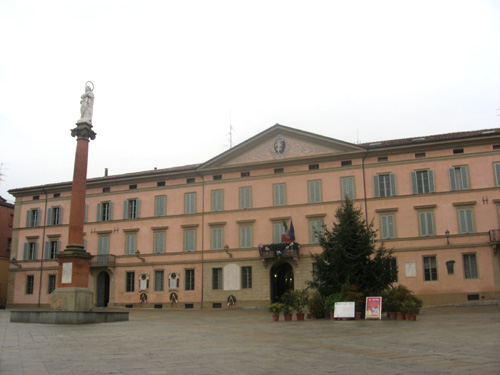 The town hall of Castel San Pietro Terme (province of Bologna, Italy) with the Mary's statue and the Christmas tree in the main square.